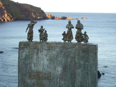 A memorial at the Scottish village of St Abbs to the 189 fishermen who lost their lives on 14th October 1881 at sea in a violent European windstorm